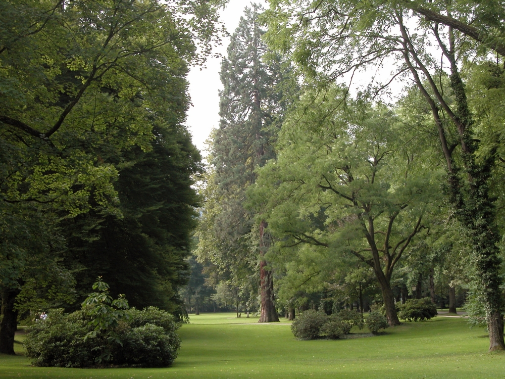 Botanical Garden, Baden-Baden, Germany